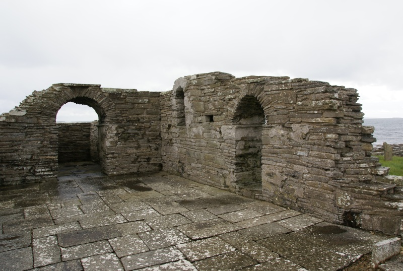 Westside Church, Tuquoy, Westray, Orkney, Scotland. View from northwest.